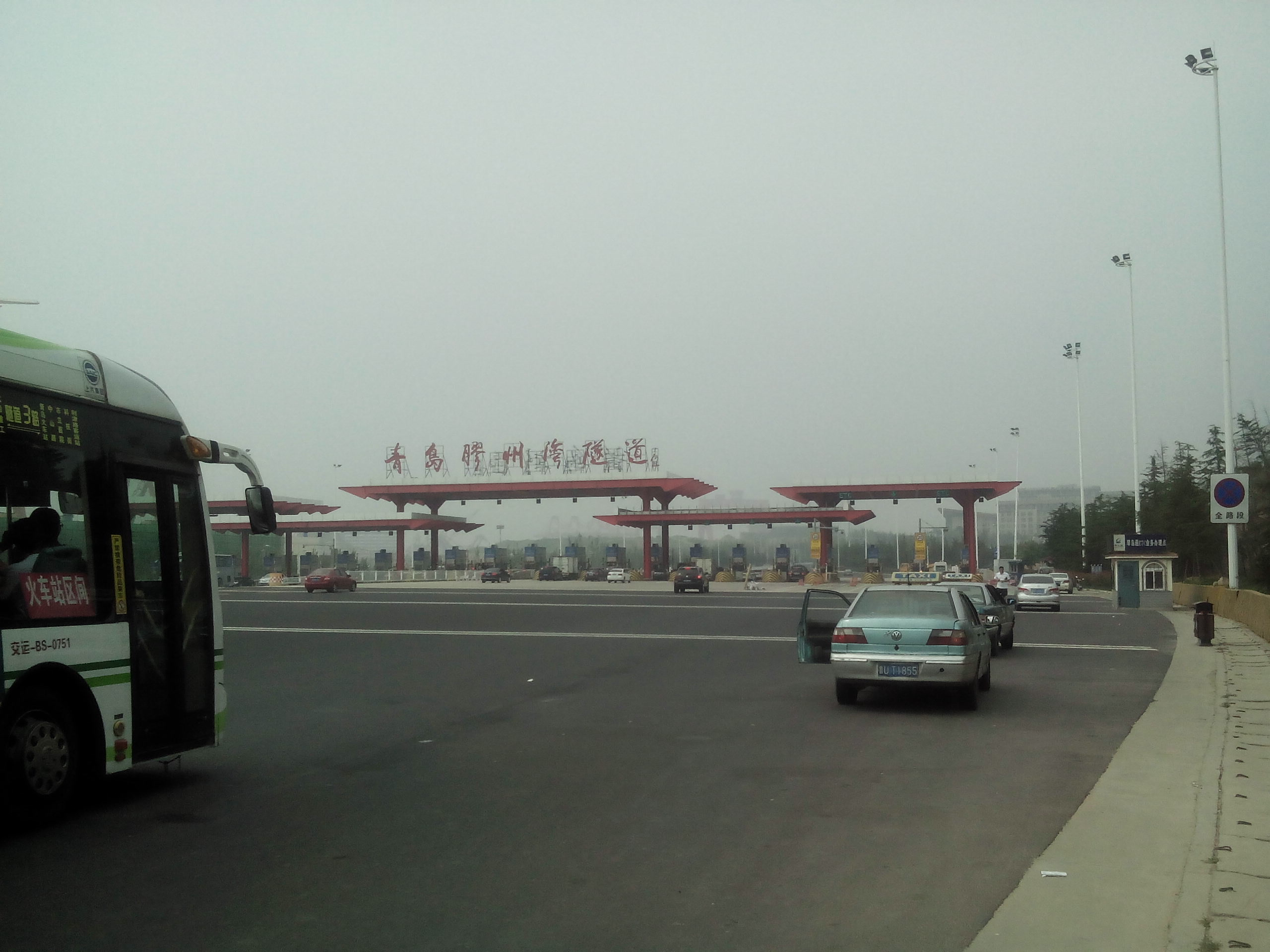 Toll station of Qingdao Jiaozhou Bay tunnel